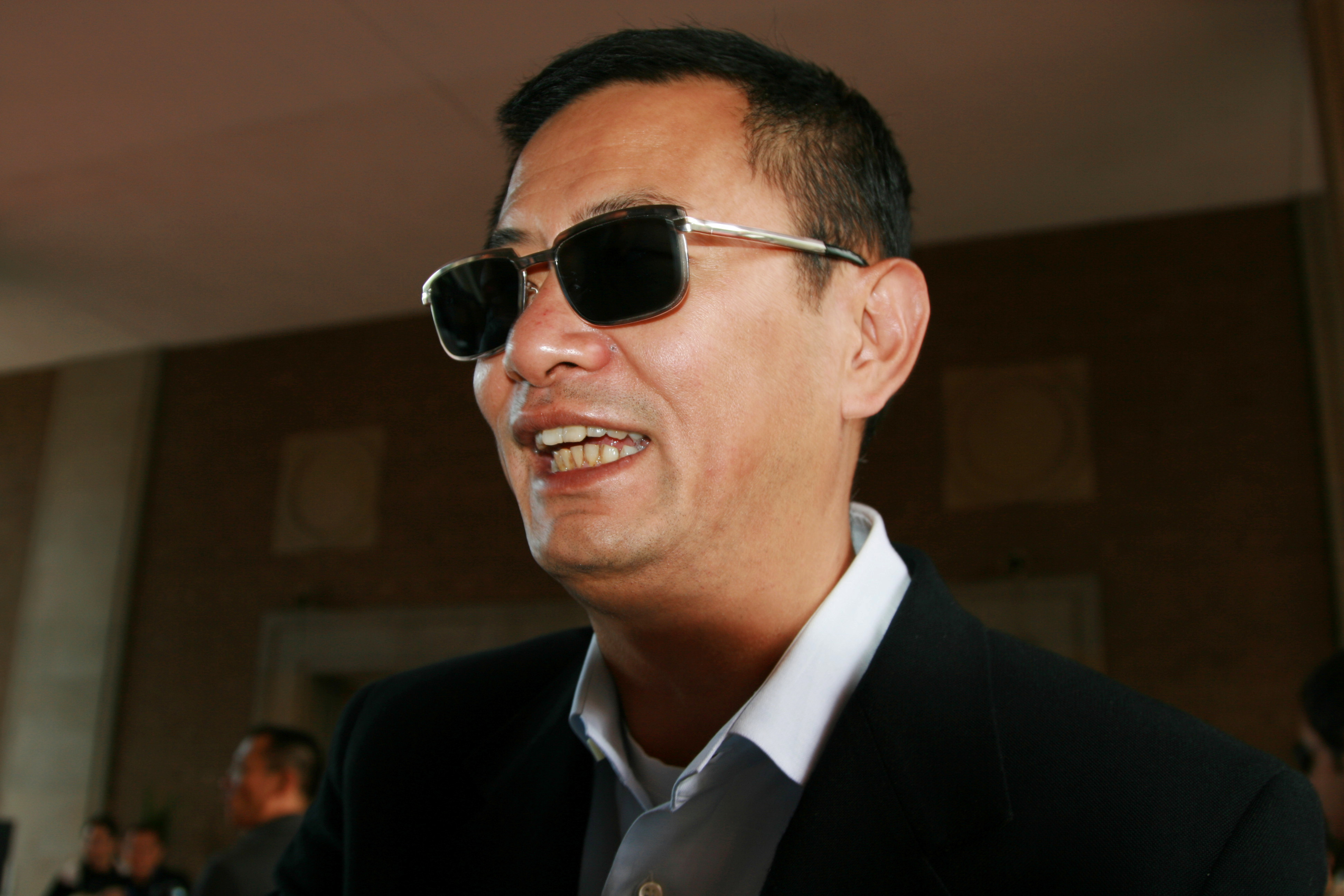 Wong Kar-wai / ??? at the TIFF premiere of Ashes of Time Redux. Monday September 8, 2008.